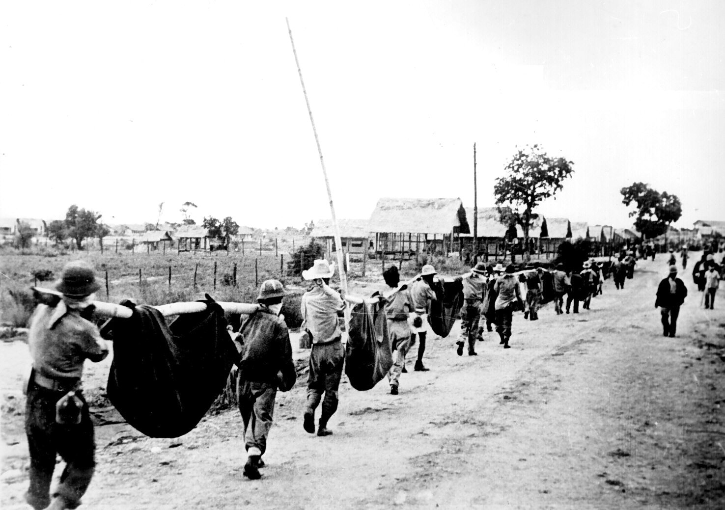 This picture, captured from the Japanese, shows American prisoners using improvised litters to carry those of their comrades who, from the lack of food or water on the march from Bataan, fell along the road. Philippines, May 1942